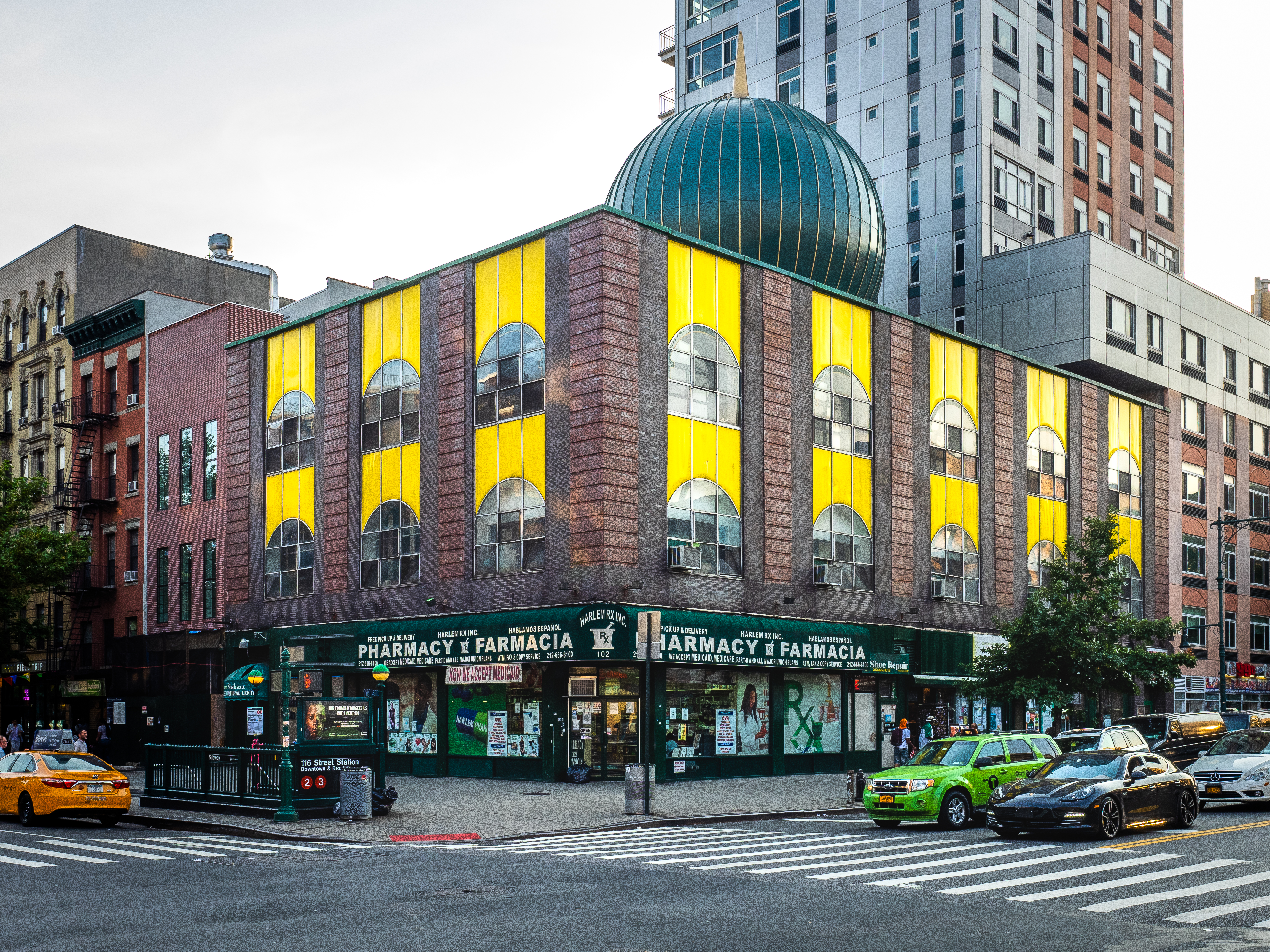 Harlem, Manhattan, New York City